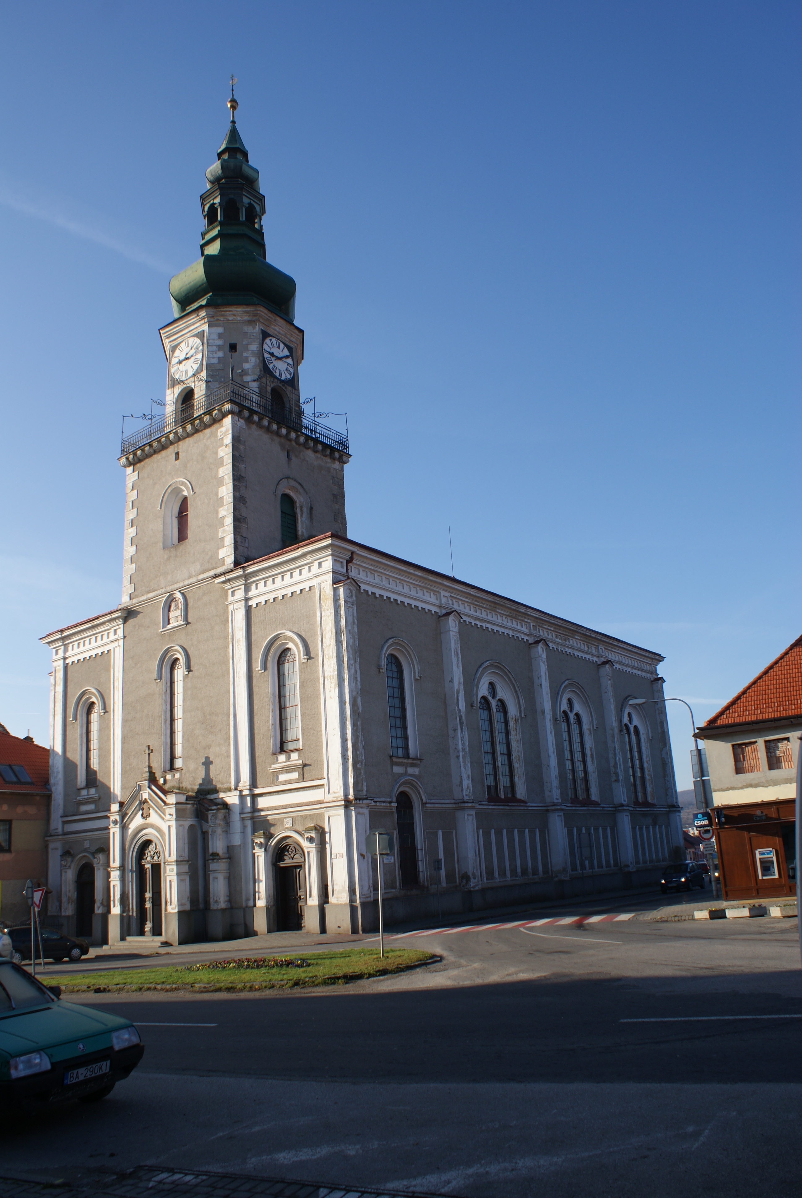 Modra, town in Pezinok district, Slovakia, the Catholic church of St Stephen.